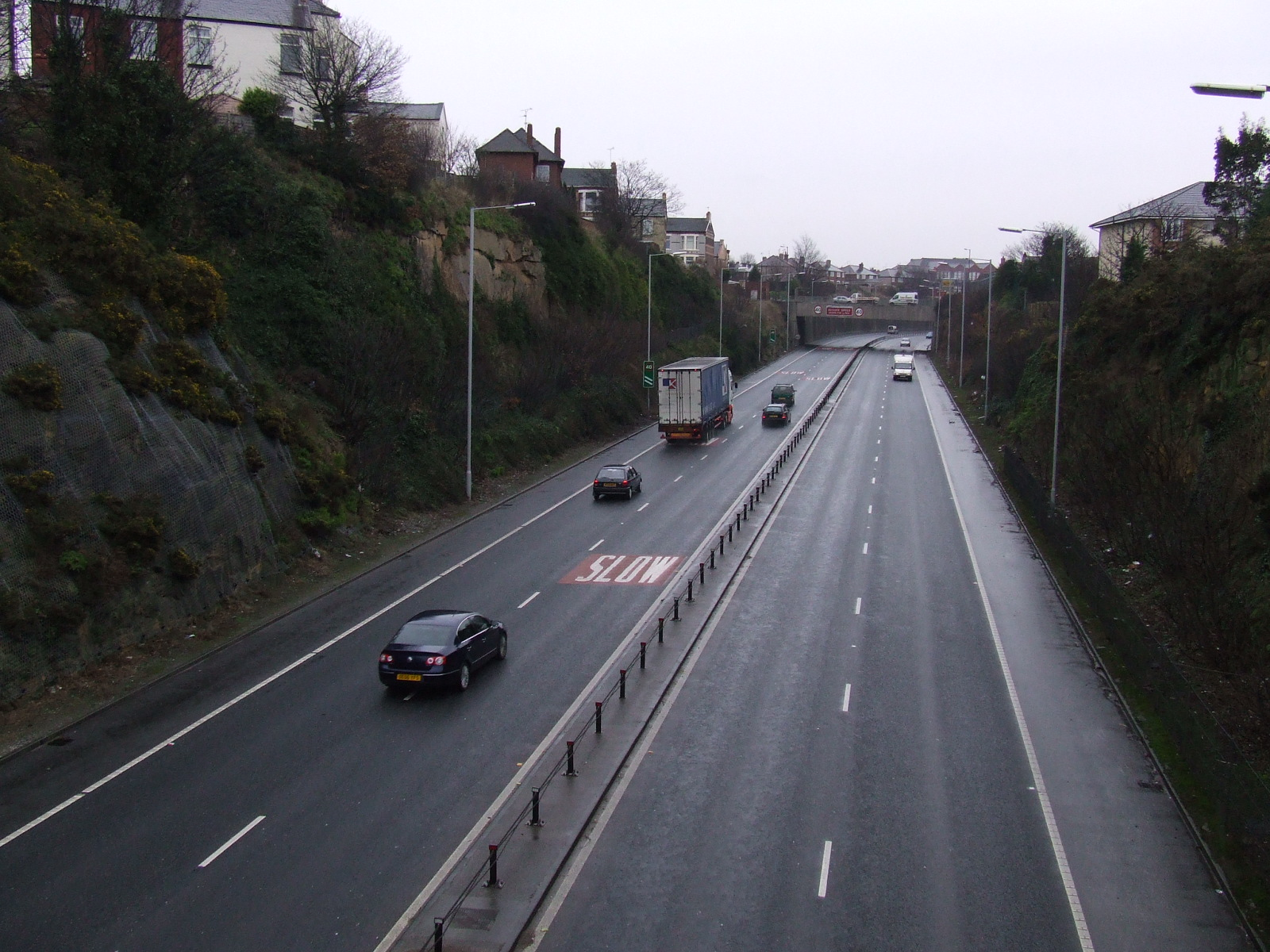 Taken by Chris Tunstall, Wallasey 19.02.2007 Site of the former Liscard & Poulton Railway Station, now the approach road from the M53 Mid Wirral Motorway into the Wallasey Tunnel.